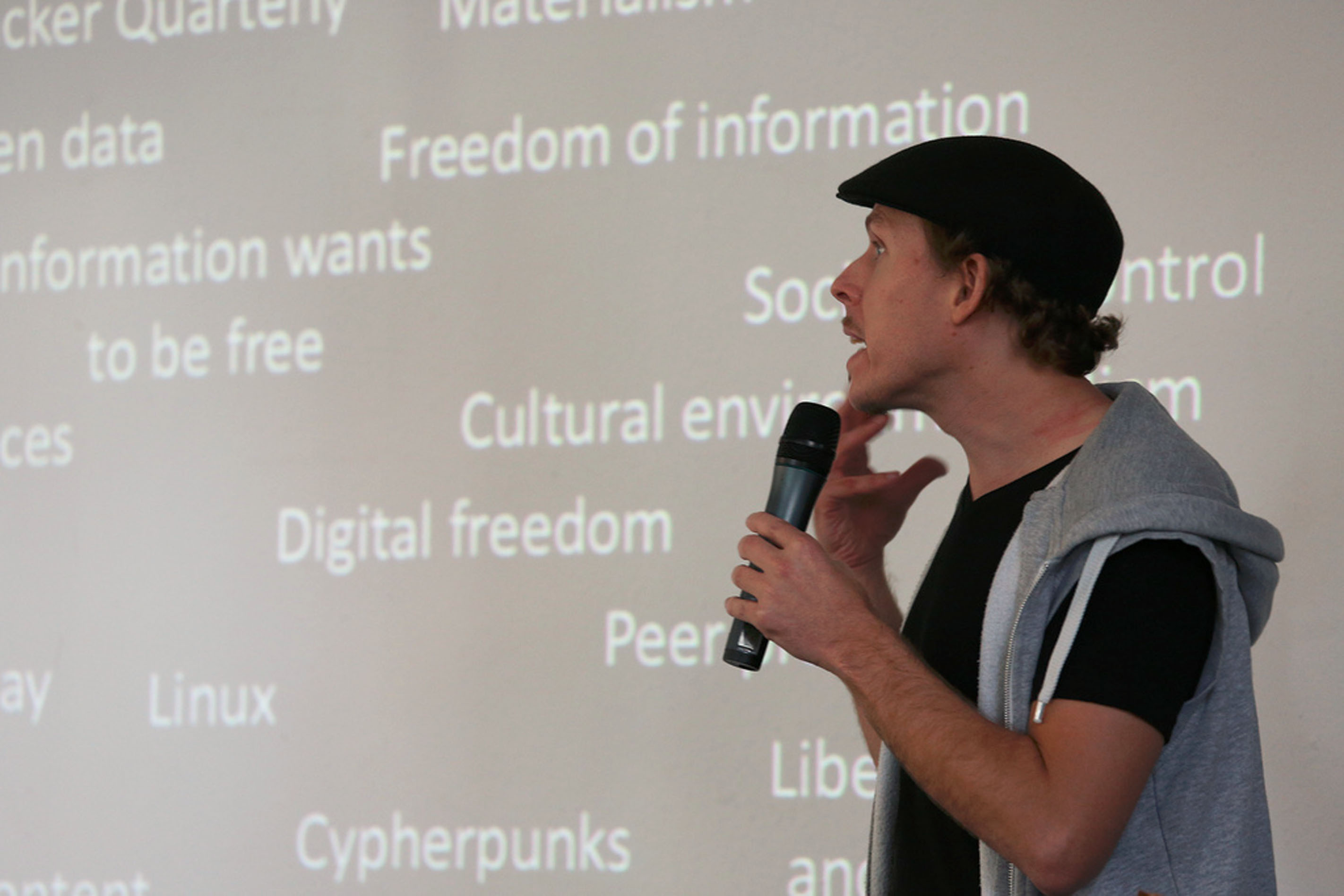 Johannes Grenzfurthner at Paraflows Symposium 2012, Vienna